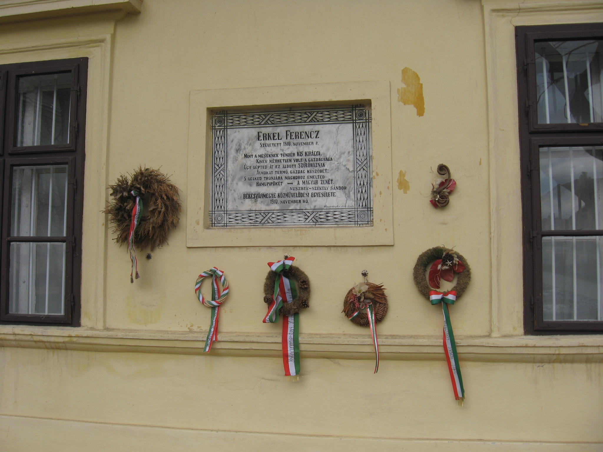 Commemorative plaque on the Erkel-house in Gyula (Apor Vilmos Square No 7), Hungary